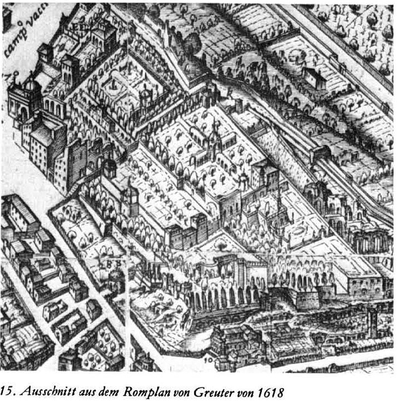 Palatine (Rome); Detail of map by Matteo Greuter (1618)